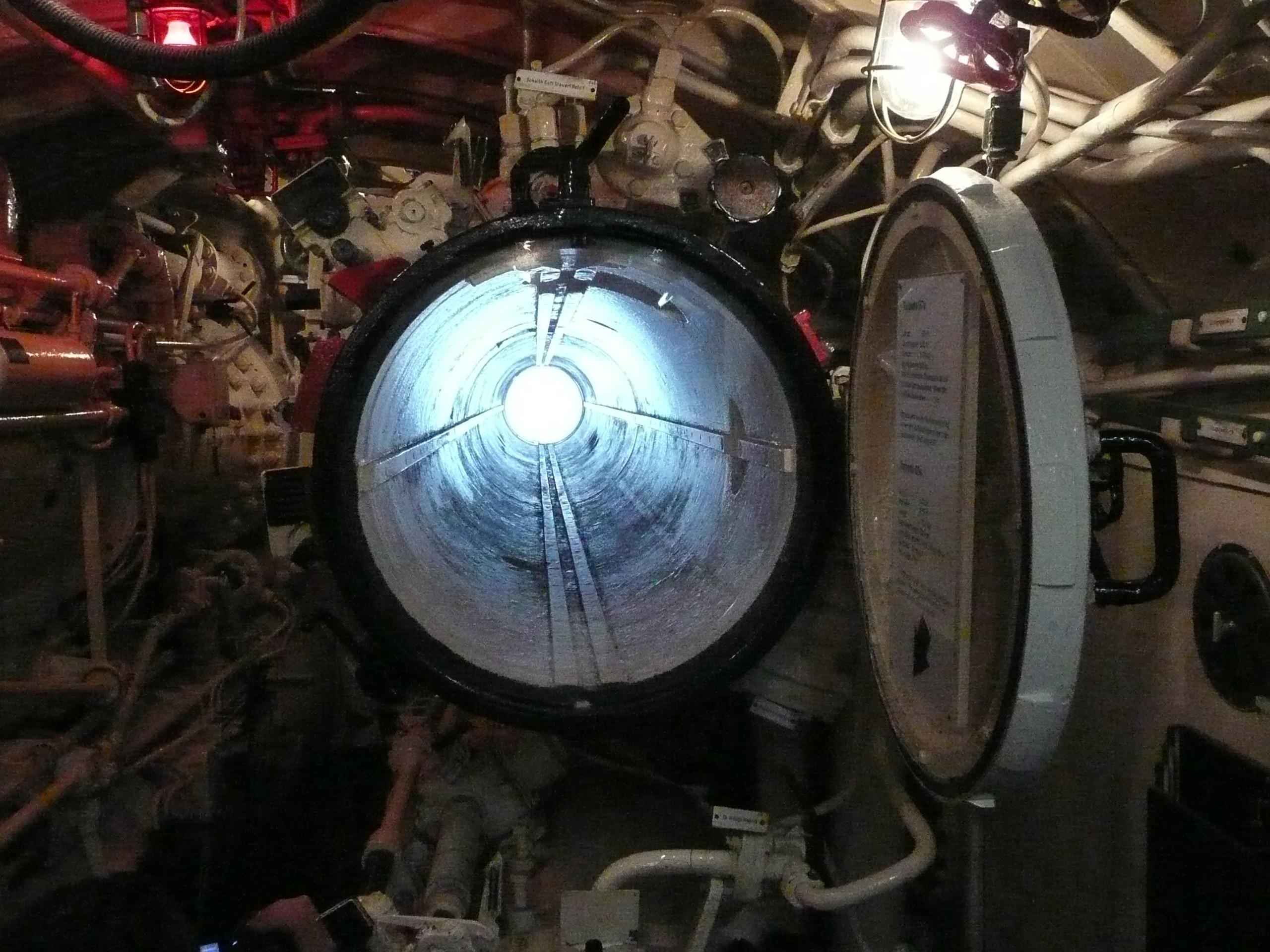 View into an opened torpedo-tube of the german type XXI submarine U 2540 / Wilhelm Bauer.